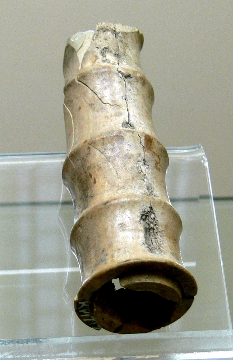 Enns ( Upper Austria ). Museum Lauriacum: Bone grip ( 4th century AD ) of a spatha.